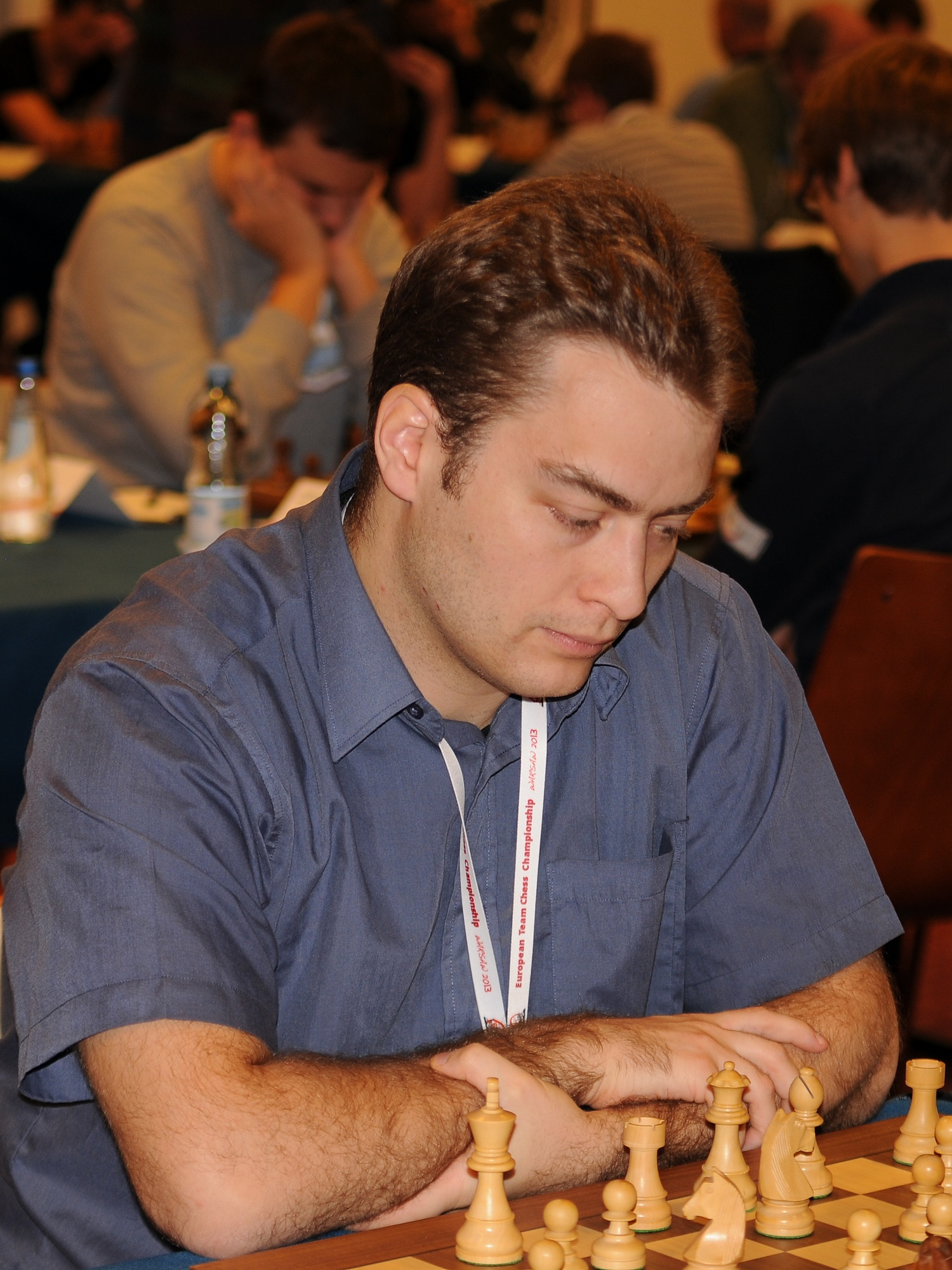 IM Mikael Agopov, European Chess Team Championship Warsaw 2013